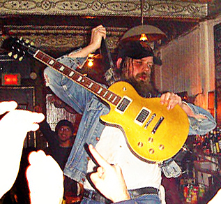 Ian Blurton, lead singer and guitarist from C'mon, climbs up on the bar at Casa del Popolo in Montreal, Canada, 27 January 2006.